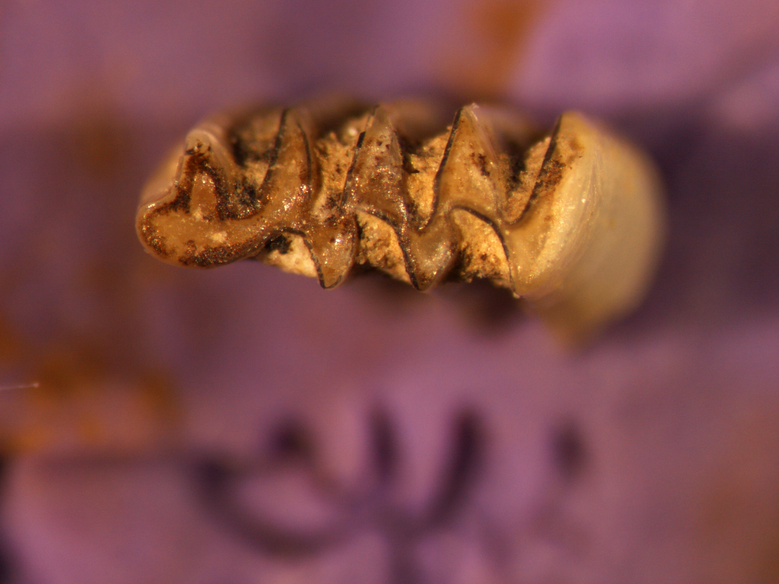 M/1 tooth of a Microtus oeconomus seen through a microscope.